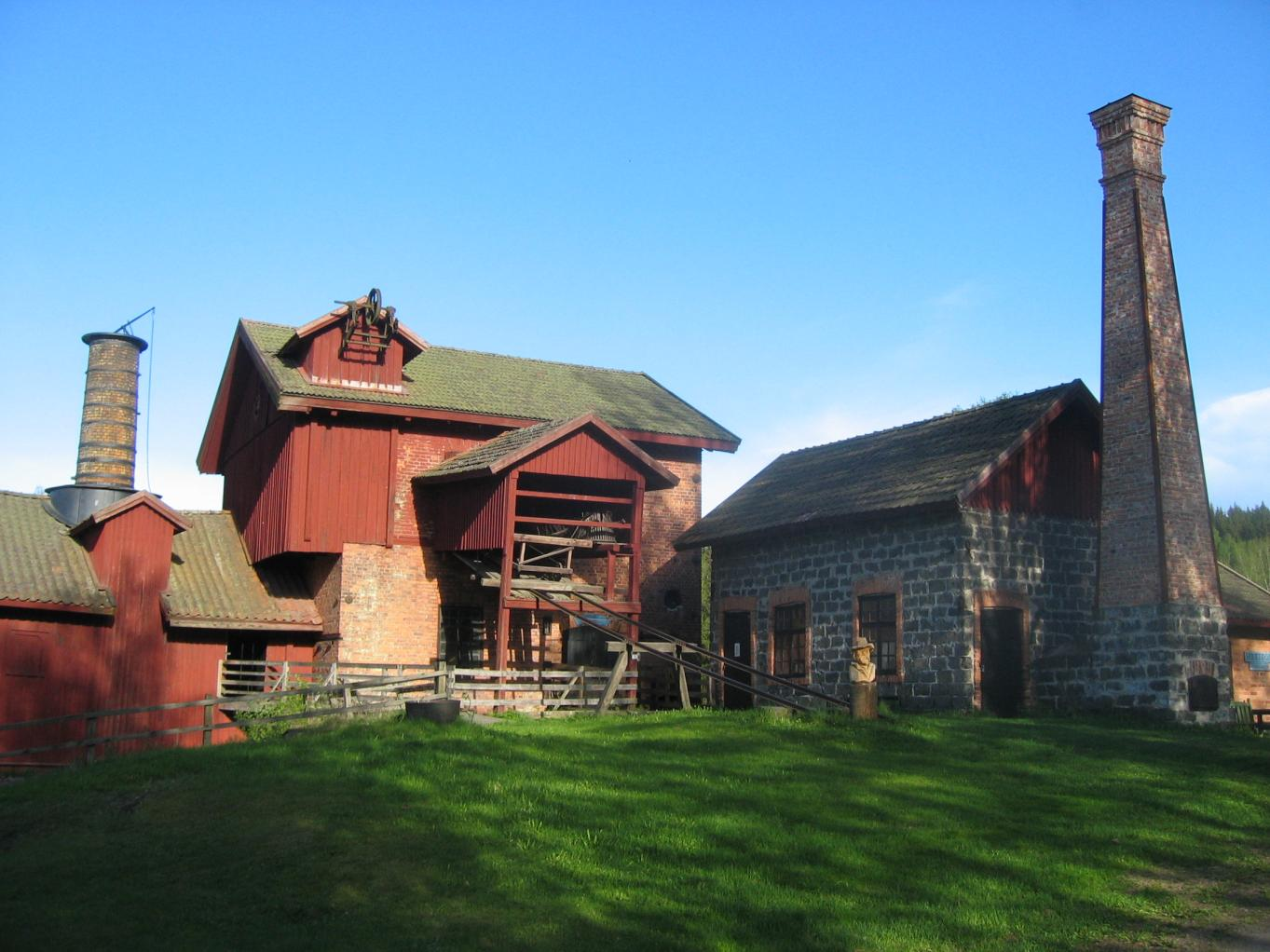 Ironworks at Granbergsdal in Värmland, Sweden, just north of Karlskoga. Seen from entrance.